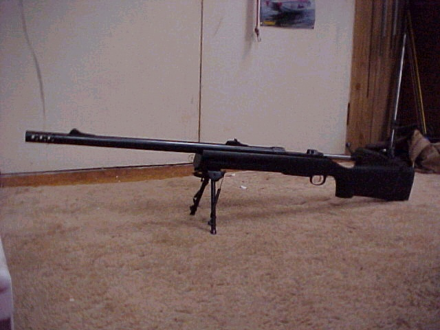 585Gehringer 585 Gehringer .585Gehringer .585 Gehringer Karl Gehringer CZ550 Elephant Gun Stopper Rifle